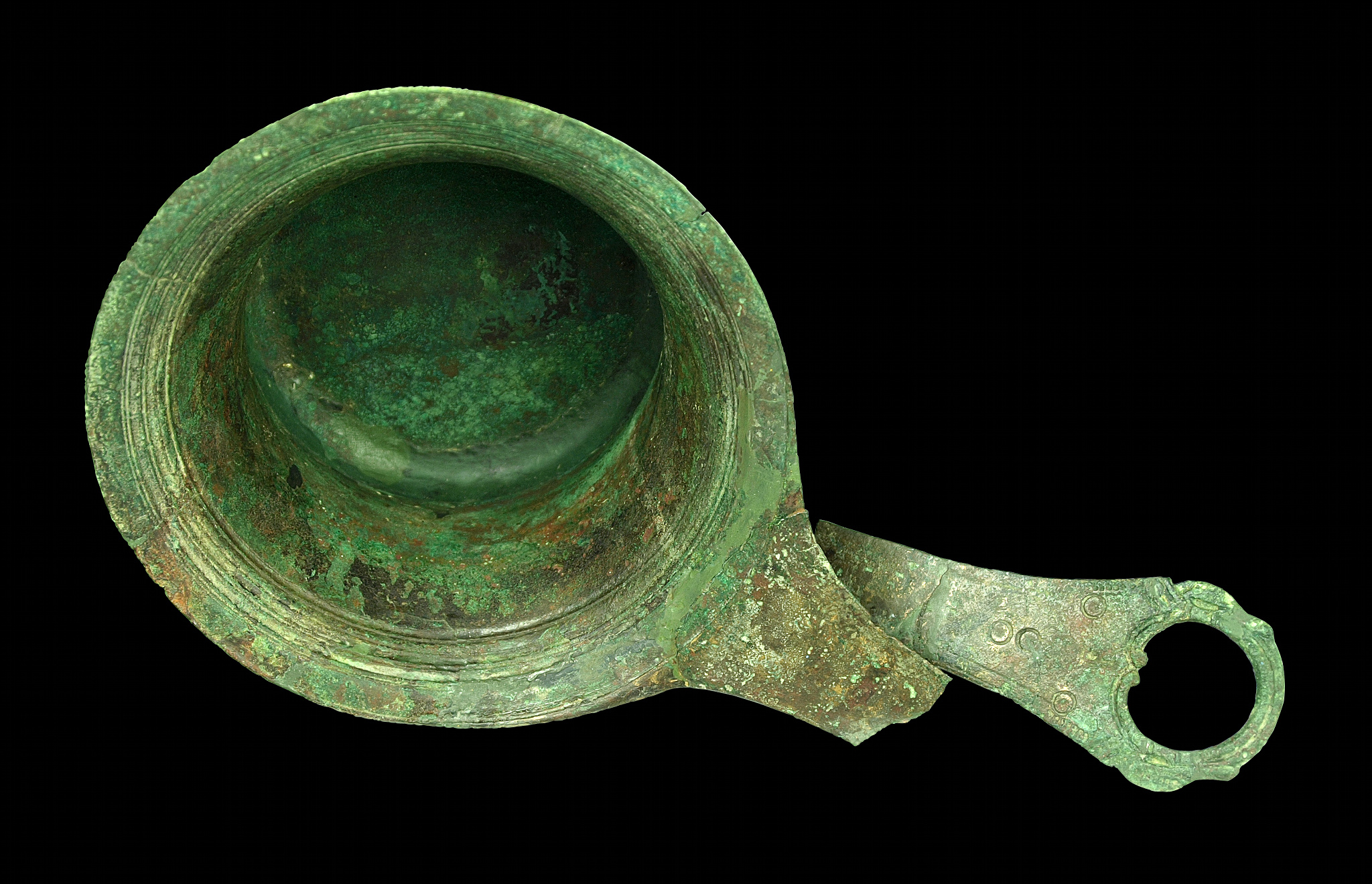 Roman casserole (patera) from the grave goods of the Lombard warrior's grave Putensen 150